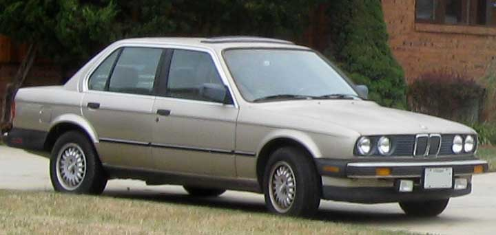 BMW E30 photographed in Fort Washington, Maryland, USA.